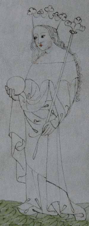 Elisabeth of Bohemia